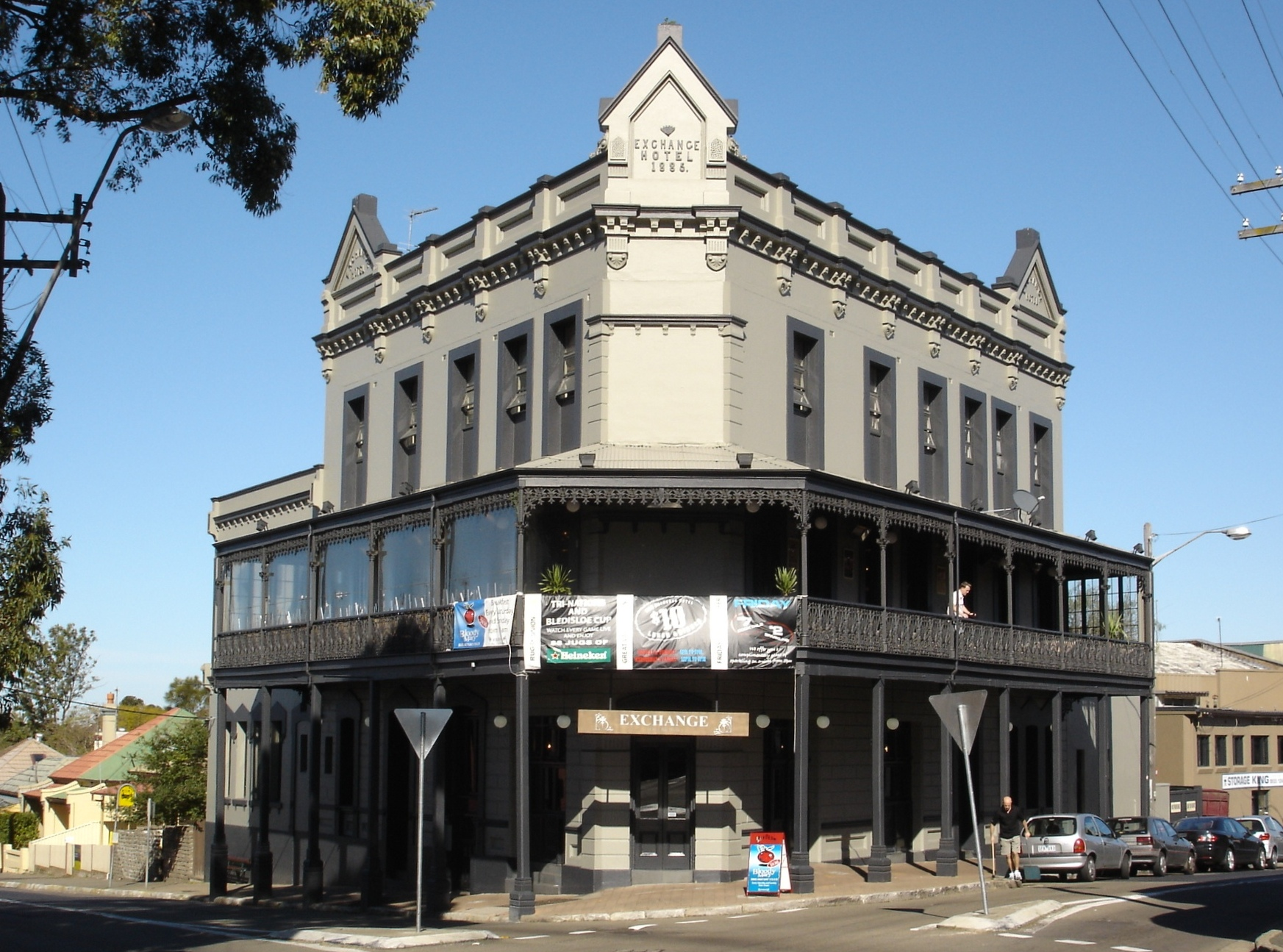 Exchange Hotel, Balmain, New South Wales, Australia. Taken by user Amitch on 20/8/06.